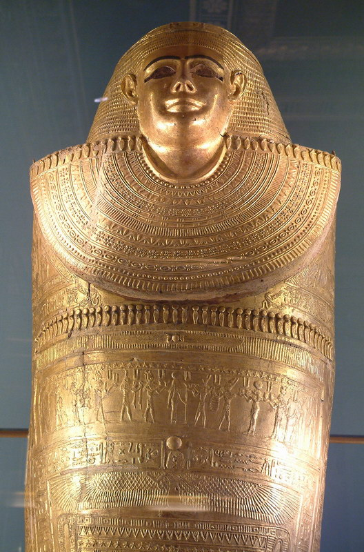 Mummy cartonnage bearing the name of dame Tacheretpaankh. Glued, stuccoed and gilded layers of canvas, 3rd-1st centuries BC.